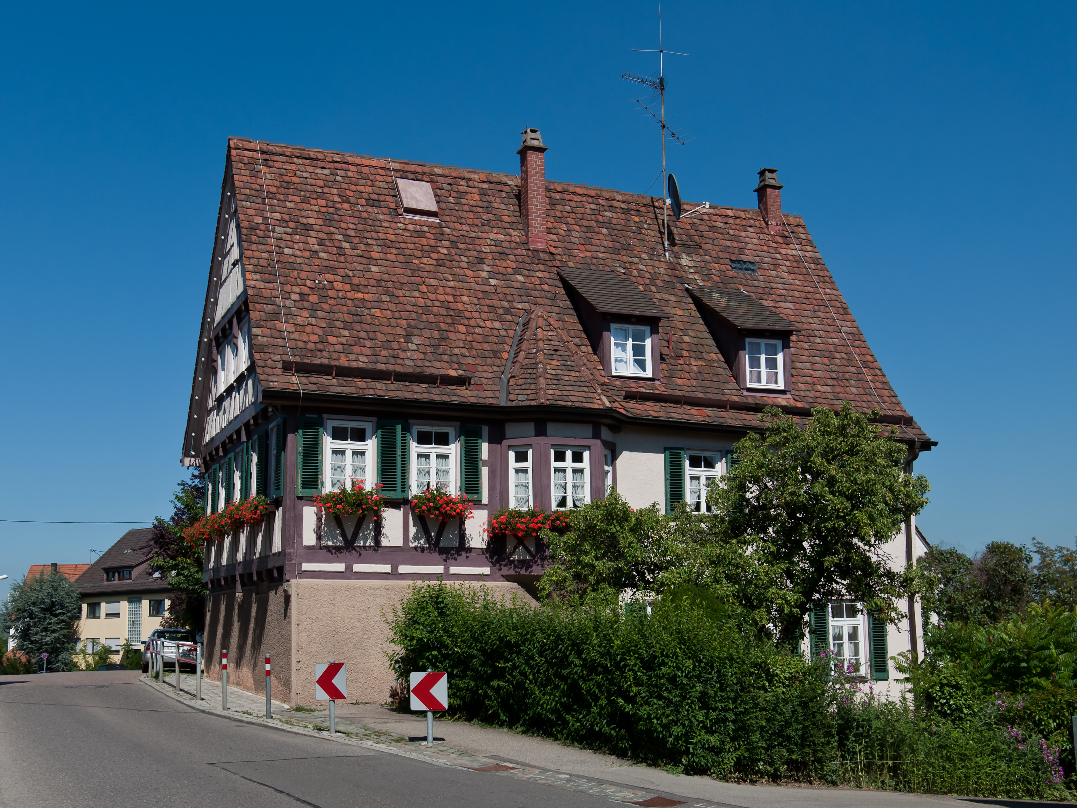 Old town hall in Stuttgart-Heumaden